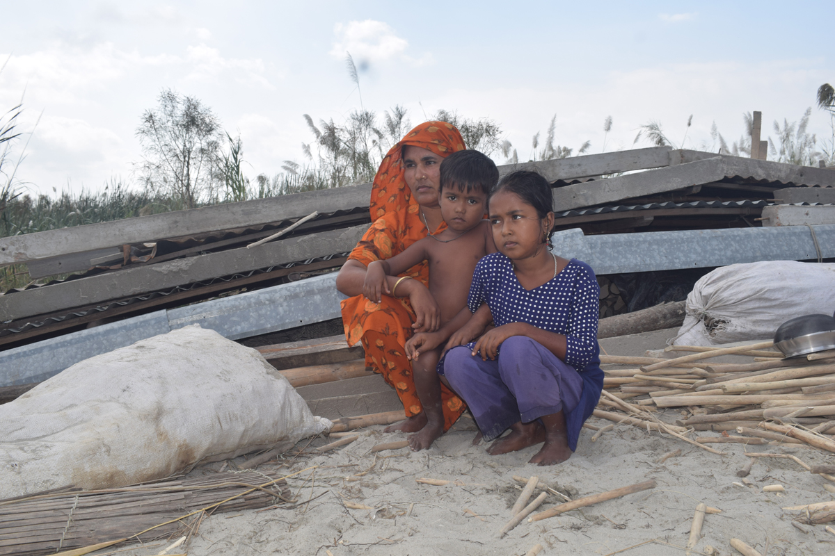 Cyclone Bulbul ‍affect in Rajrajessor chor, Chandpur, Bangladesh